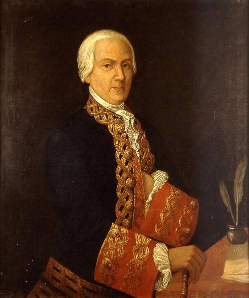 Portrait of the Admiral of the Spanish Navy Juan de Lángara Arizmendi